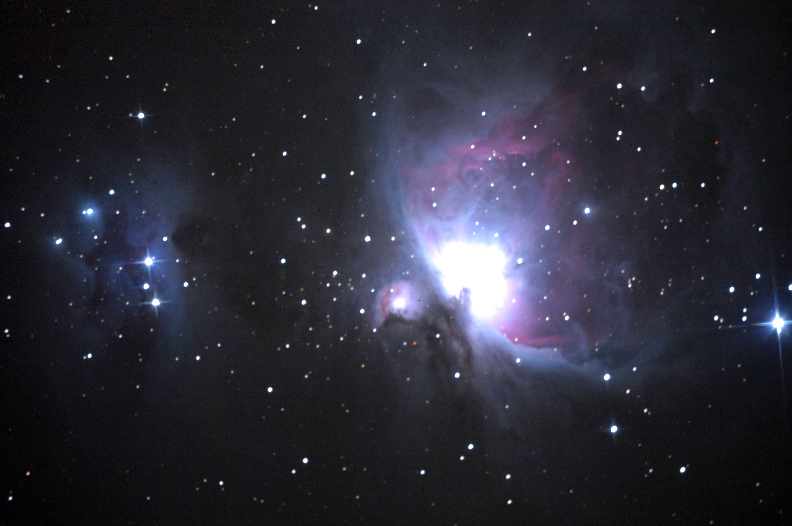 The orion nebulae. Photo taken from Siviri Halkidiki, Greece; telescope: 8inc Neutonian.